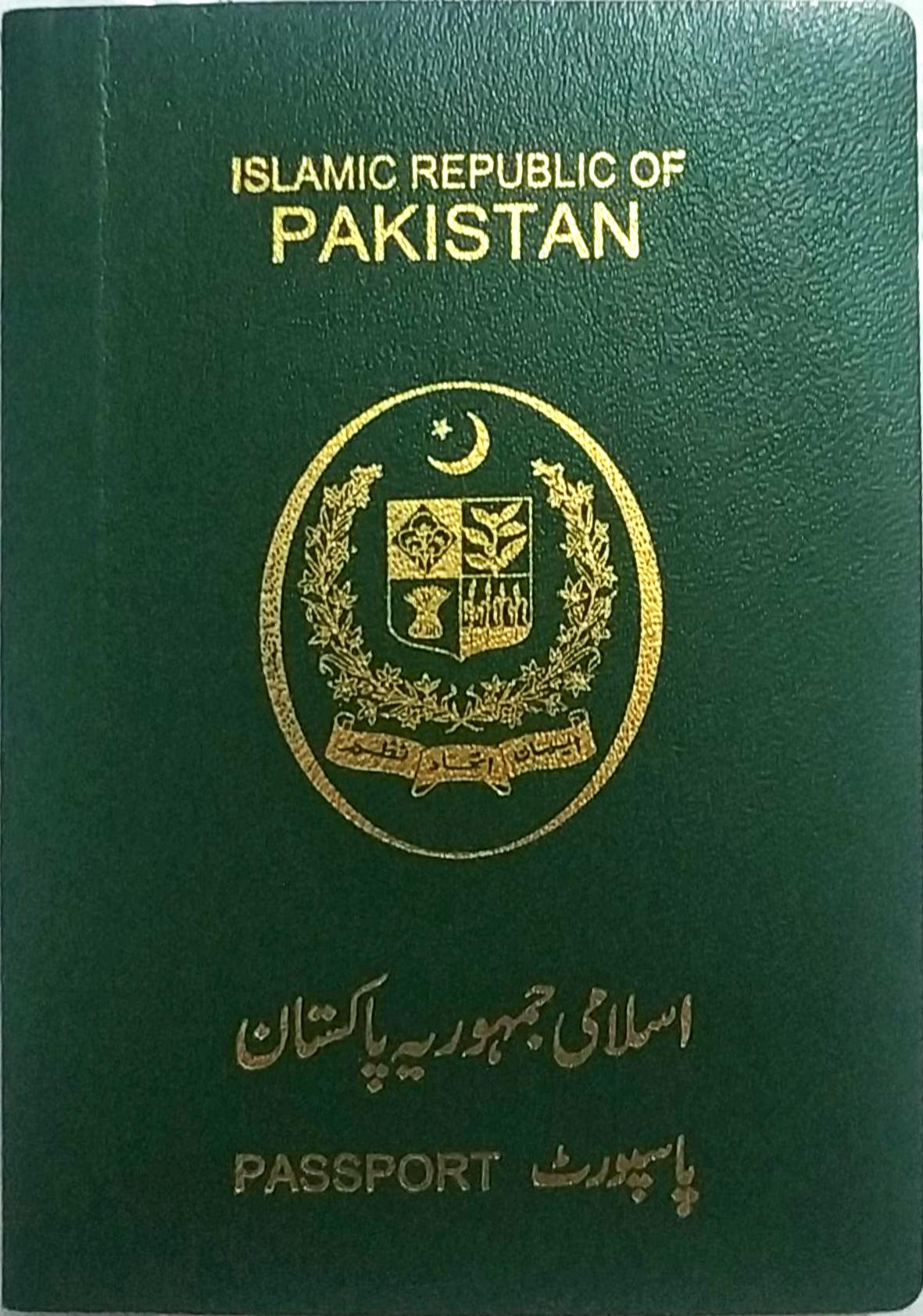 Pakistani passport front cover